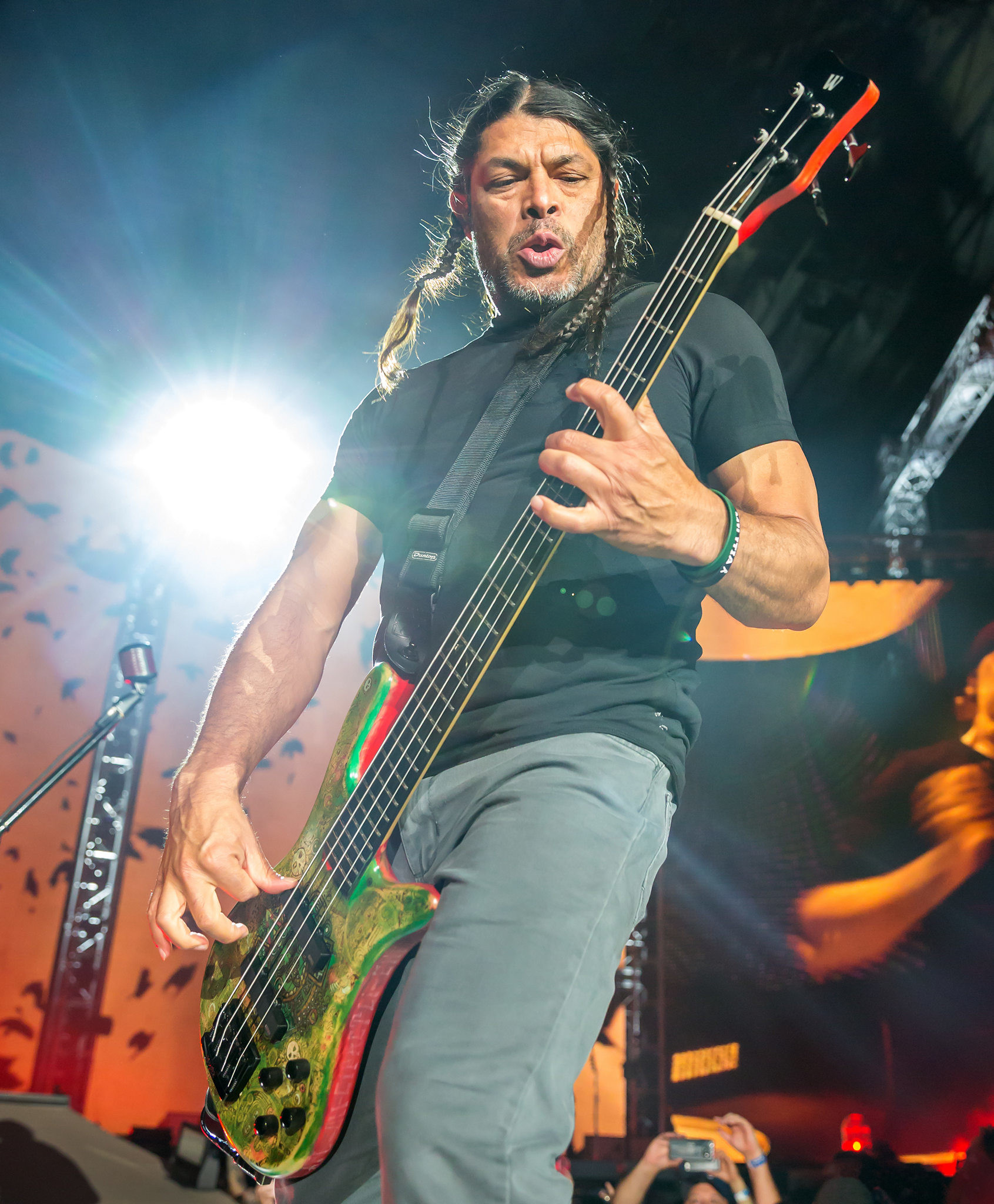 Robert Trujillo with Metallica performing in San Antonio, Texas (2017-06-14)